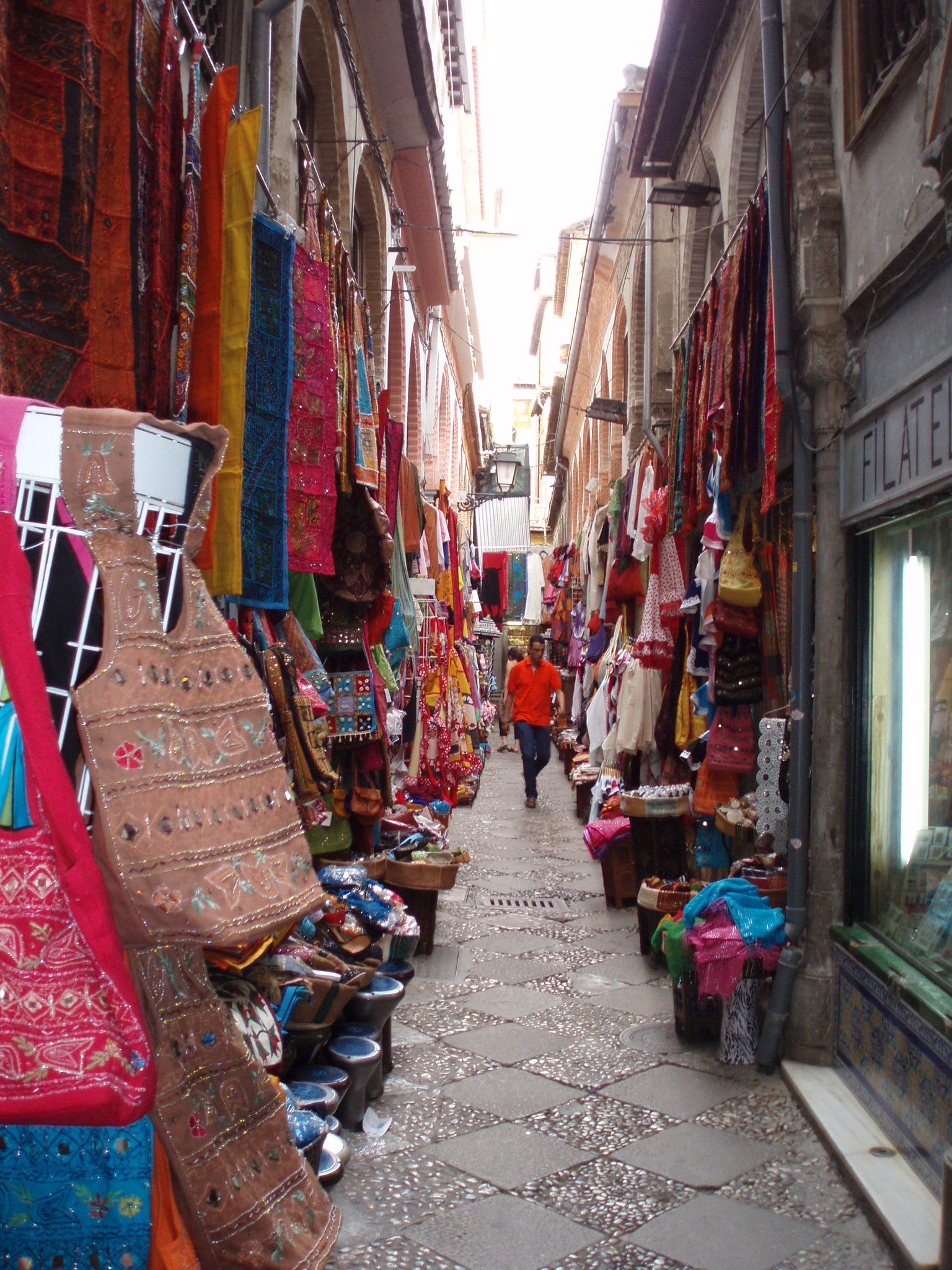 narrow medina-street in Granada (Spain) called "la Alcaicería". It was formerly the Moorish, silk-oriented, bazaar of Granada until 1843 when a fire completely destroyed it and, since then, it never recovered its importance as city market. It's now a souvenir-like open air mall